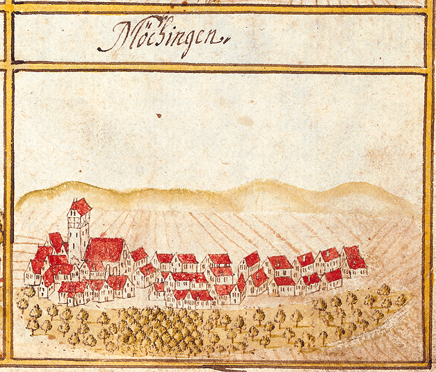 View of Maichingen, Sindelfingen, from the forest register books created by Andreas Kieser